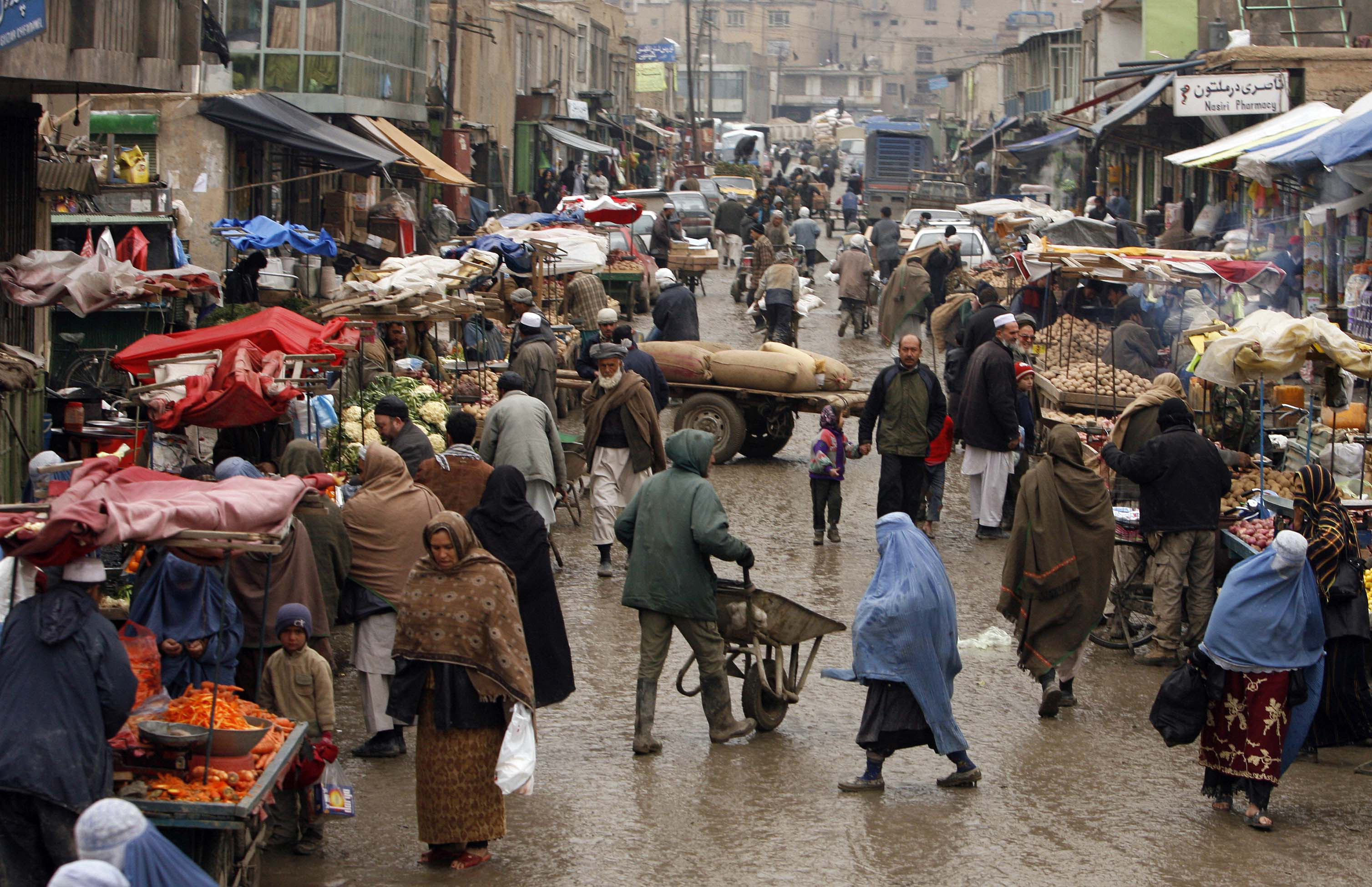 An Afghan market teems with vendors and shoppers on Feb. 4, 2009. U.S. Army National Guard Photographer Staff Sgt. Russell Lee Klika, who now serves with U.S. Army soldiers of the 2nd Battalion, 19th Special Forces Group of the West Virginia Army National Guard has begun capturing this and other scenes of daily life throughout Afghanistan. The unit recently deployed to conduct missions around the country in support of Operation Enduring Freedom XIII.